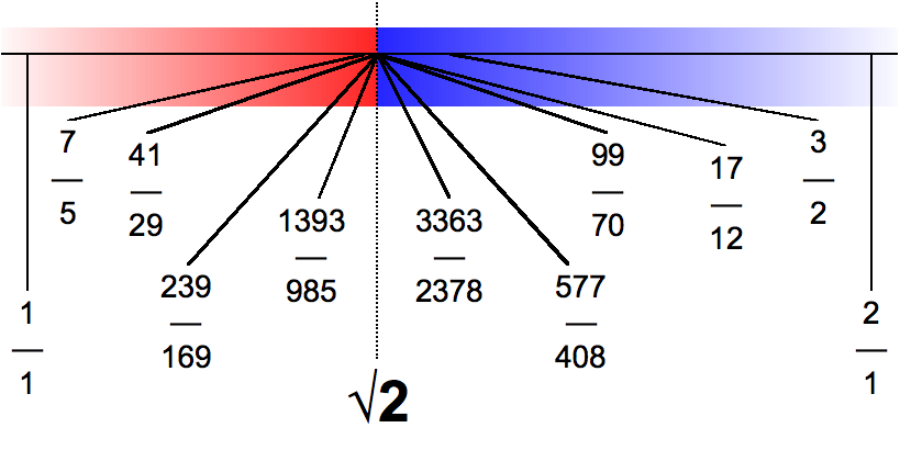 Dedekind cut defining √2, an irrational number, using two sets of positive rational numbers. All those whose square is less than two (red), and those whose square is equal to or greater than two (blue). ... 1/1 = 1 7/5 = 1.4 41/29 = 1.413793103448276... 239/169 = 1.414201183431953... 1393/985 = 1.414213197969543... √2 = 1.414213562373095... 3363/2378 = 1.41421362489487... 577/408 = 1.41421568627451... 99/70 = 1.414285714285714... 17/12 = 1.416 3/2 = 1.5 2/1 = 2 ... After: File:Dedekind cut sqrt 2.svg.